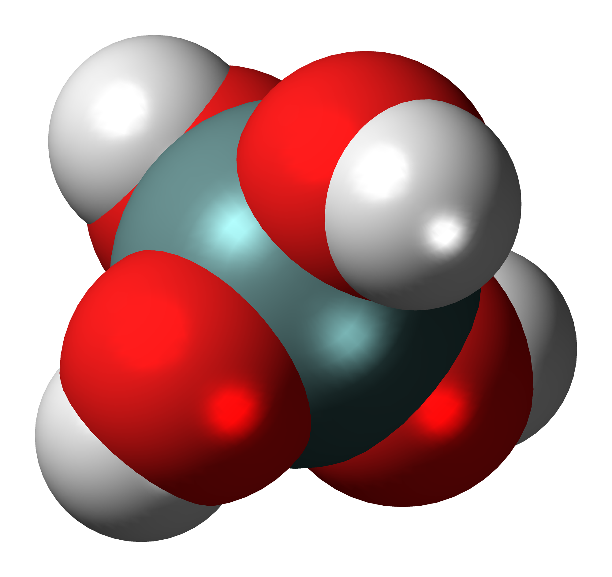 Space-filling model of the orthosilicic acid molecule, the most common type of silicic acid. Colour code: Hydrogen, H: white Oxygen, O: red Silicon Si: blue-grey